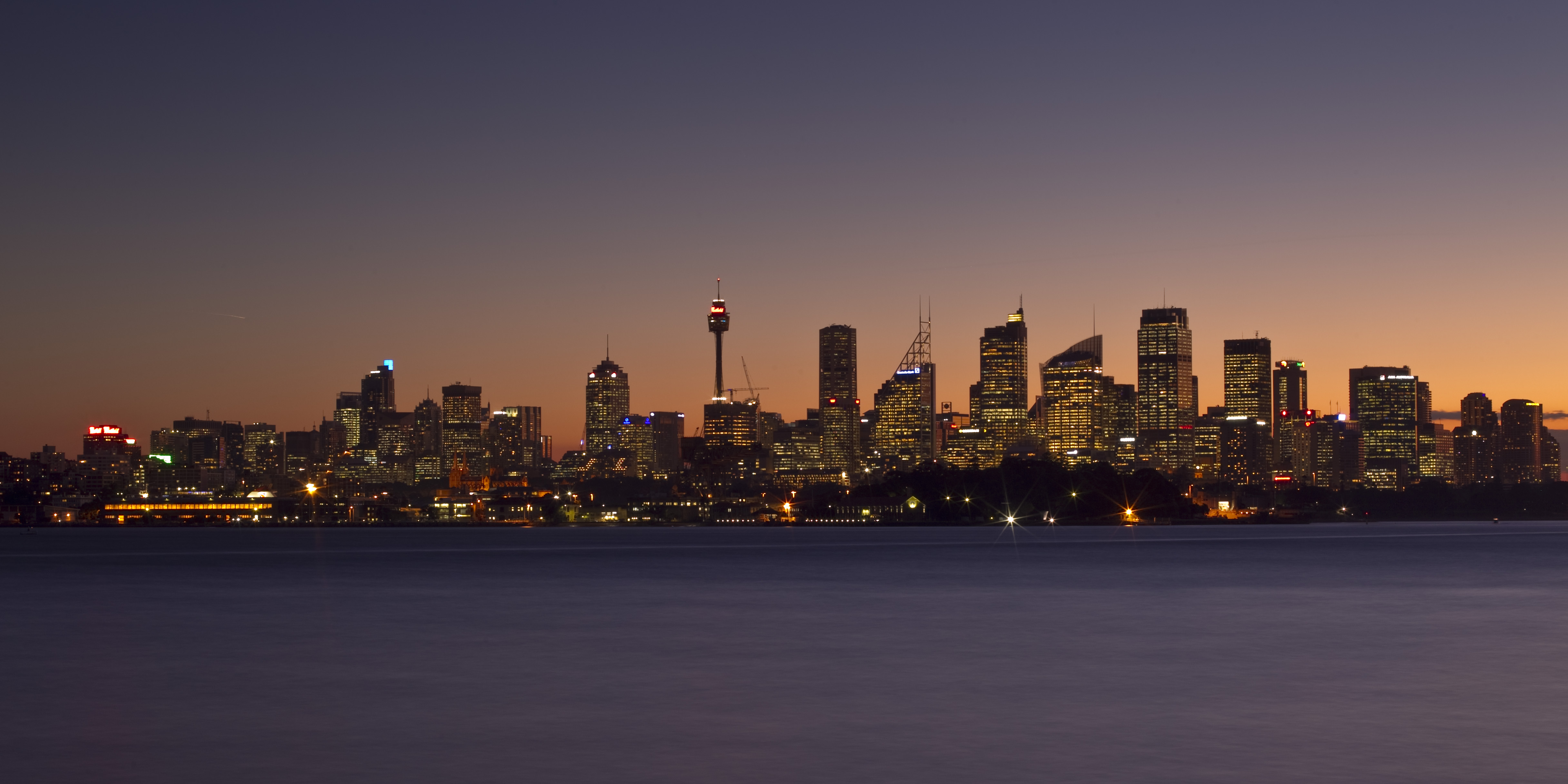 Sydney's North West skyline from Bradley's Head